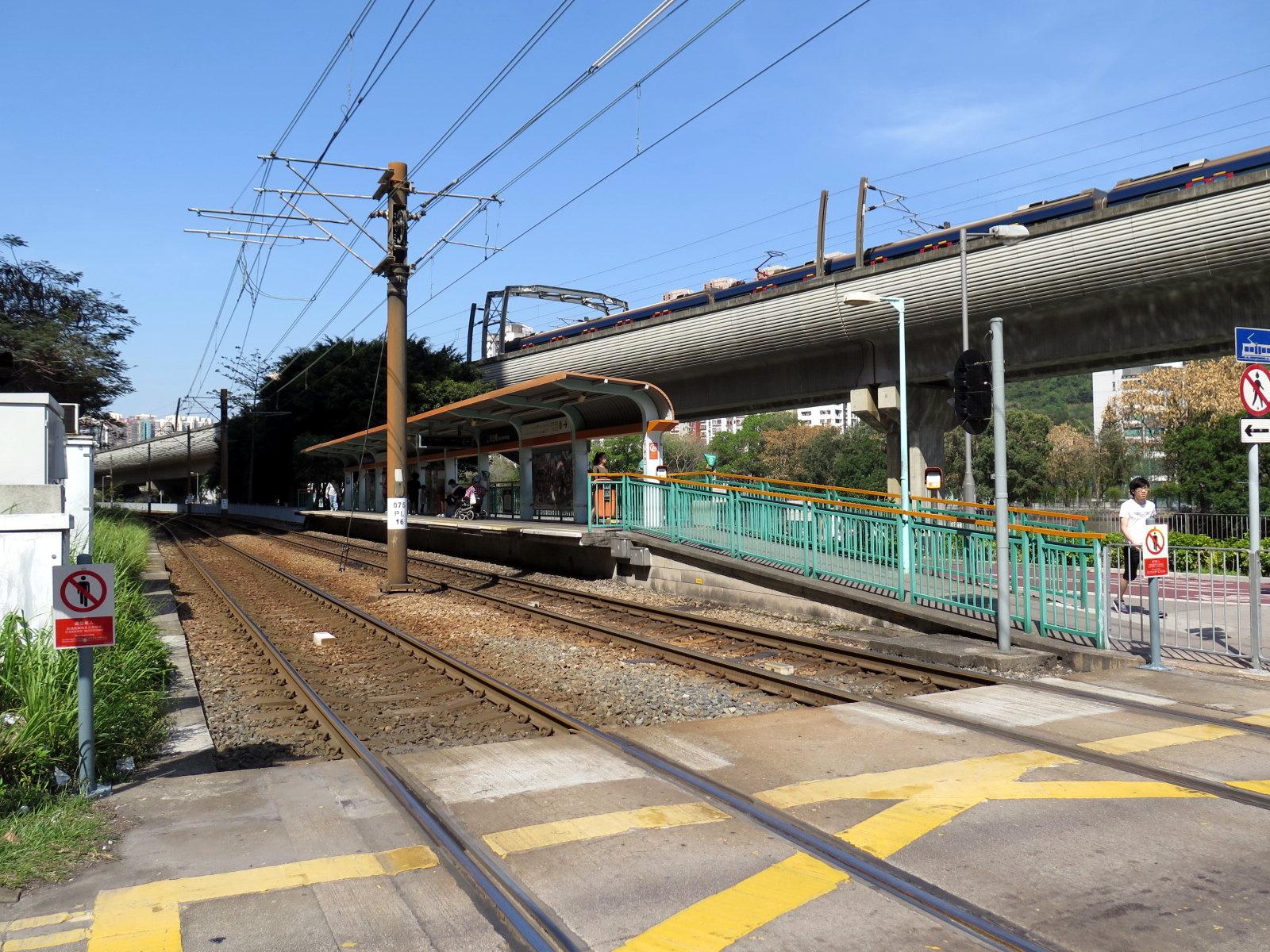 Choy Yee Bridge Stop